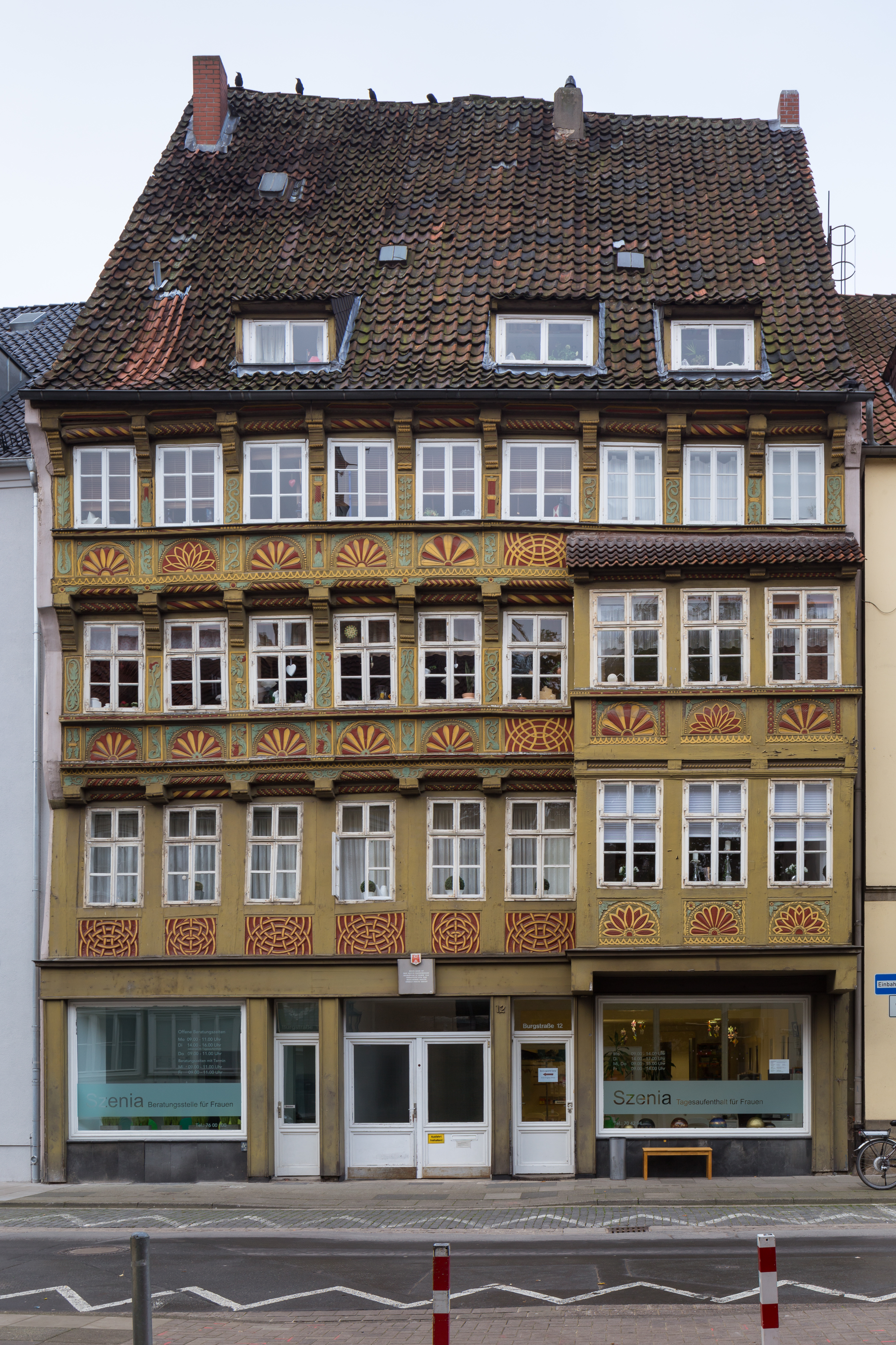 Apartment and business house located at Burgstrasse no. 12 in Mitte quarter of Hannover, Germany